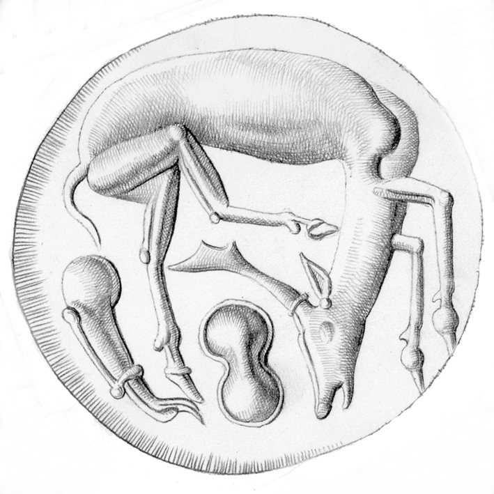 ancient minoan seal as a drawing